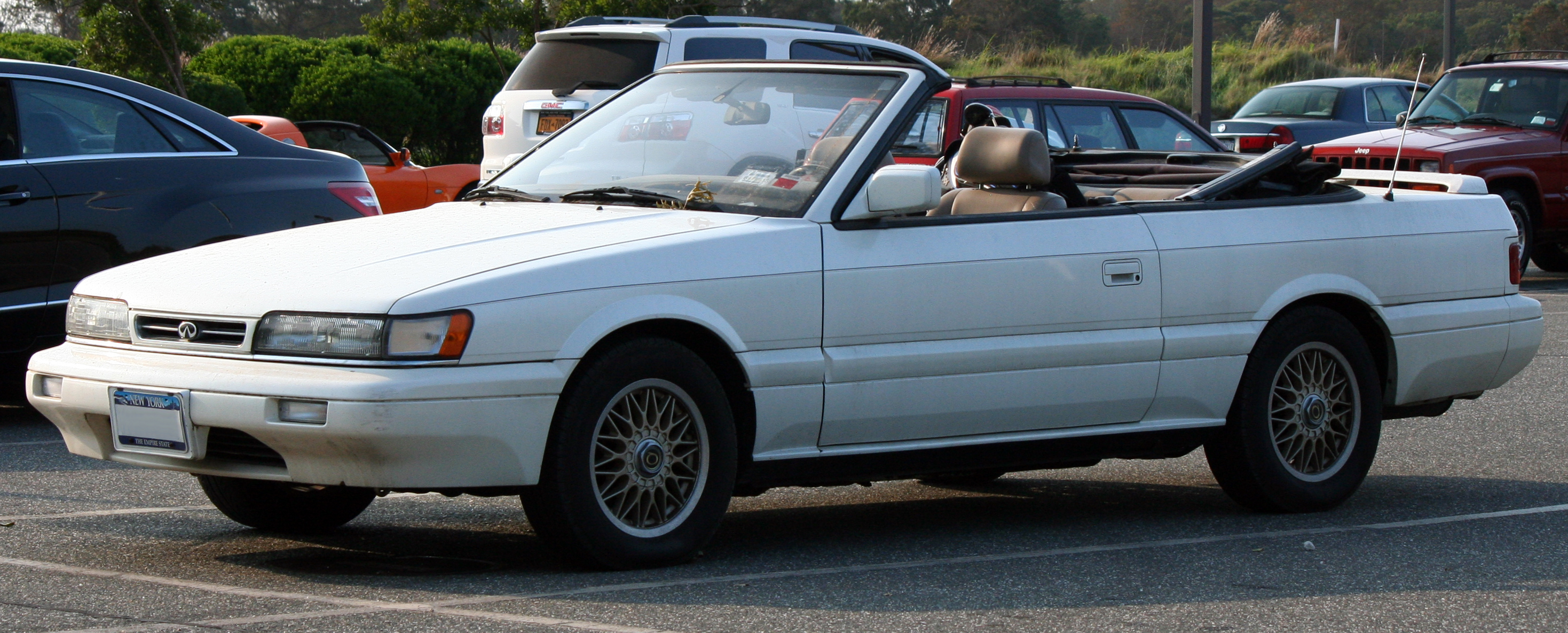 1991 Infiniti M30 Convertible seen in Amagansett, NY